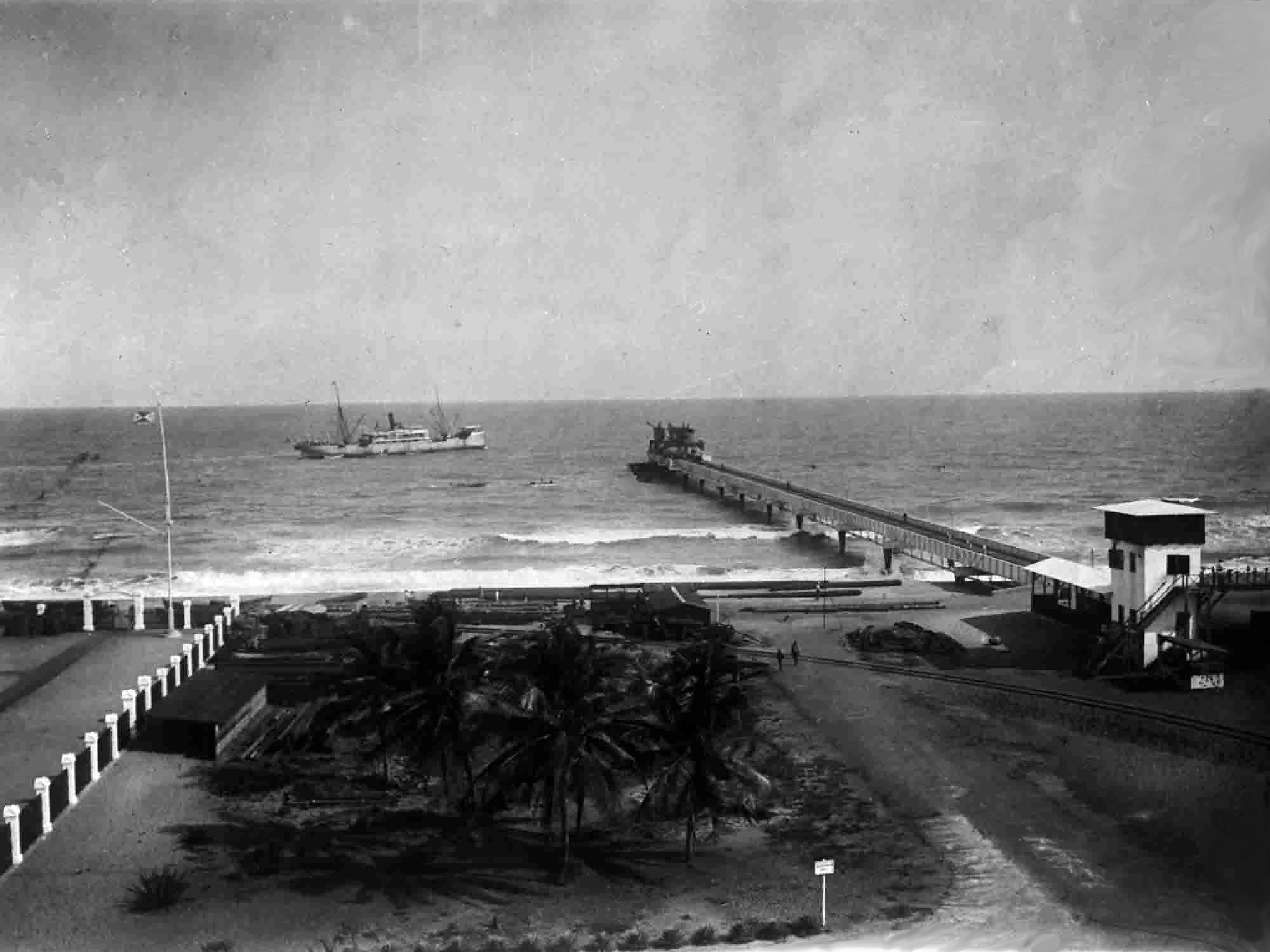 Old Jetty in Lome (Togo)